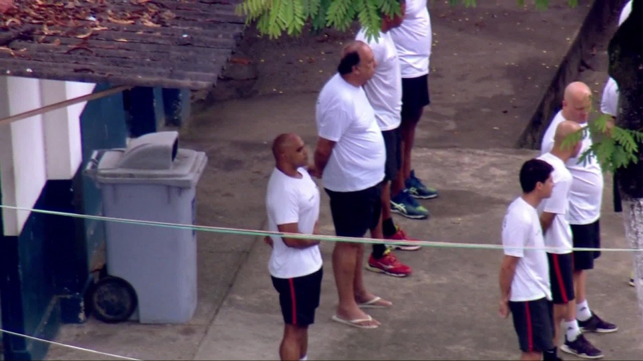 Governor Luiz Fernando Pezão, from Rio de Janeiro (Brazil), attends a flag raising ceremony while he is in jail for corruption charges. Português do Brasil: Governador Luiz Fernando Pezão, do Rio de Janeiro, participa de cerimônia de hasteamento da bandeira no presídio.